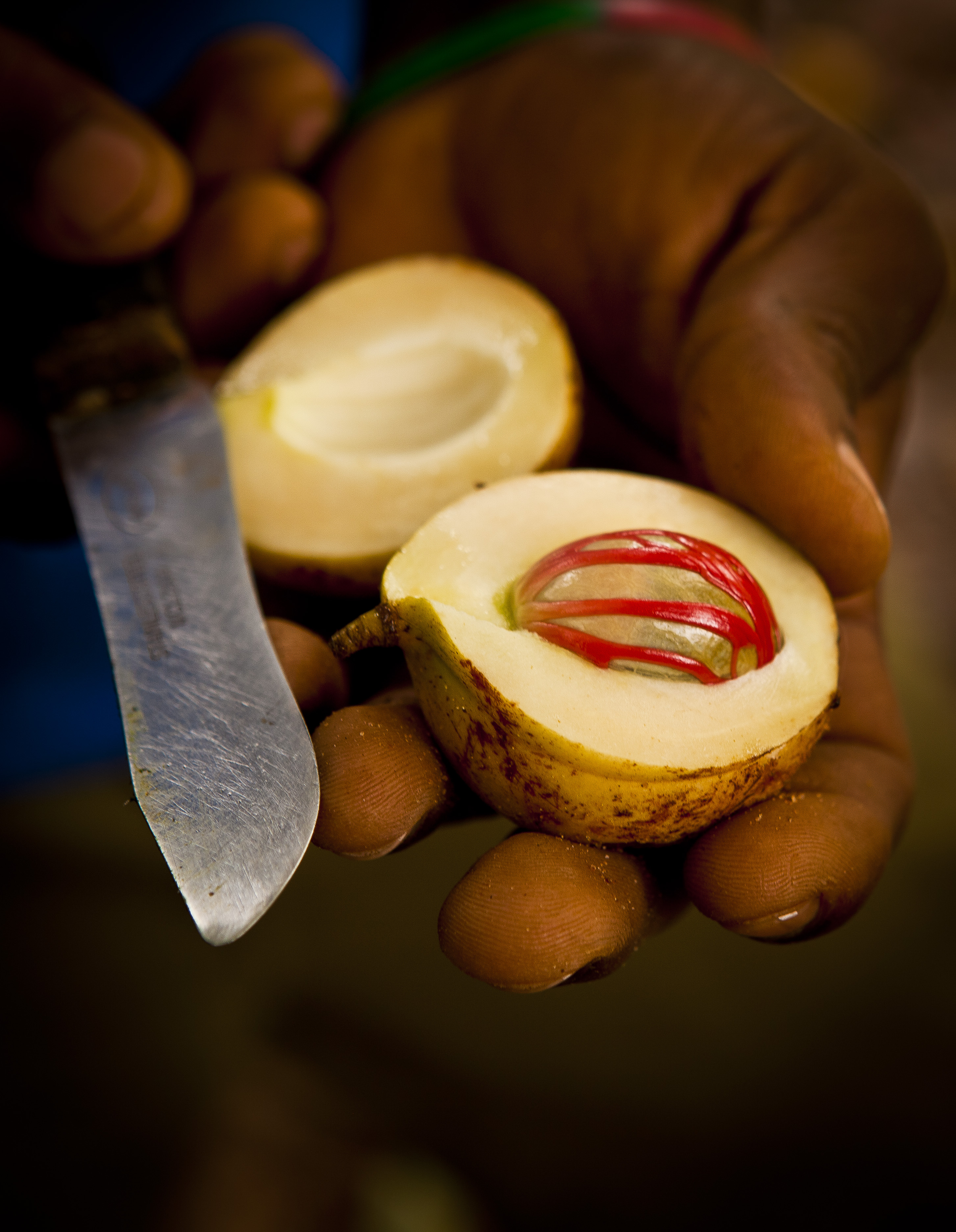 Nutmeg (Myristica fragrans) from Tanzania